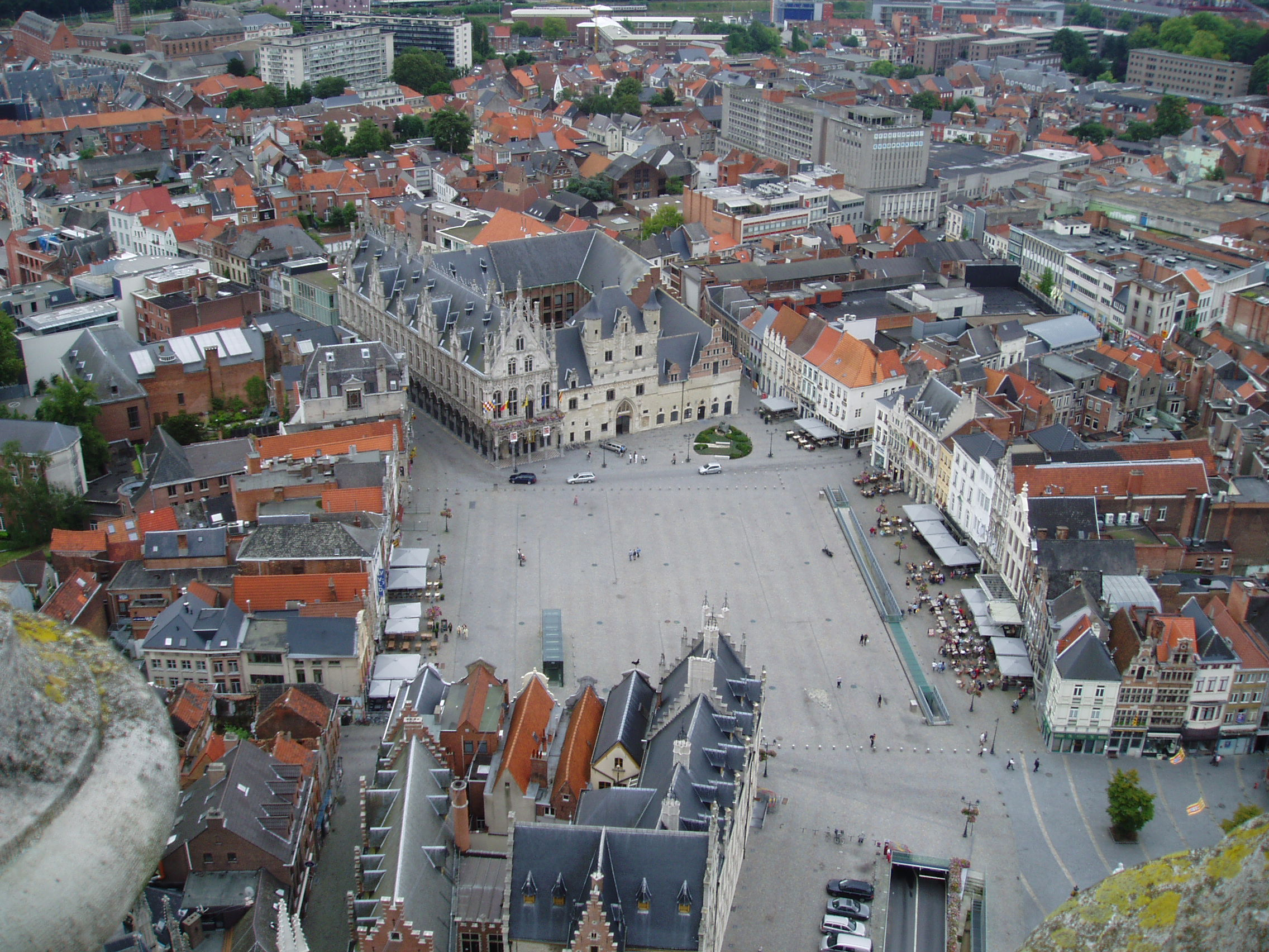 Picture of Mechelen (Belgium) town square. Picture taken from cathedral Sint-Rombouts.